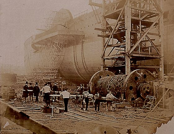 Picture of the Great Eastern steamship under construction